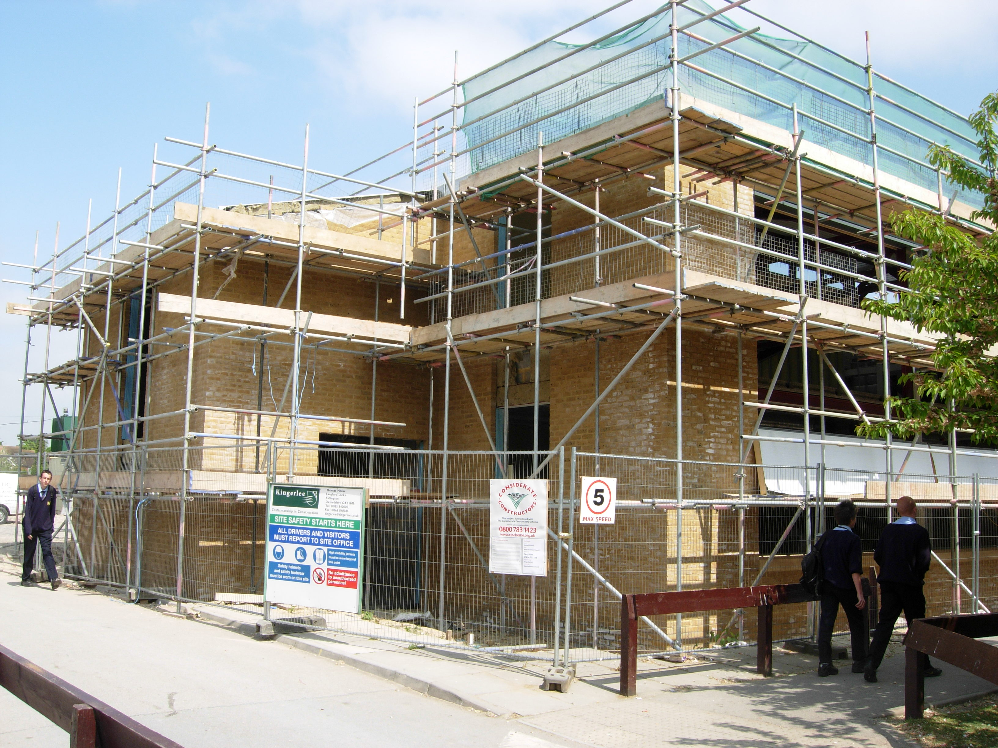 View of building works at Kennet Comprehensive School.